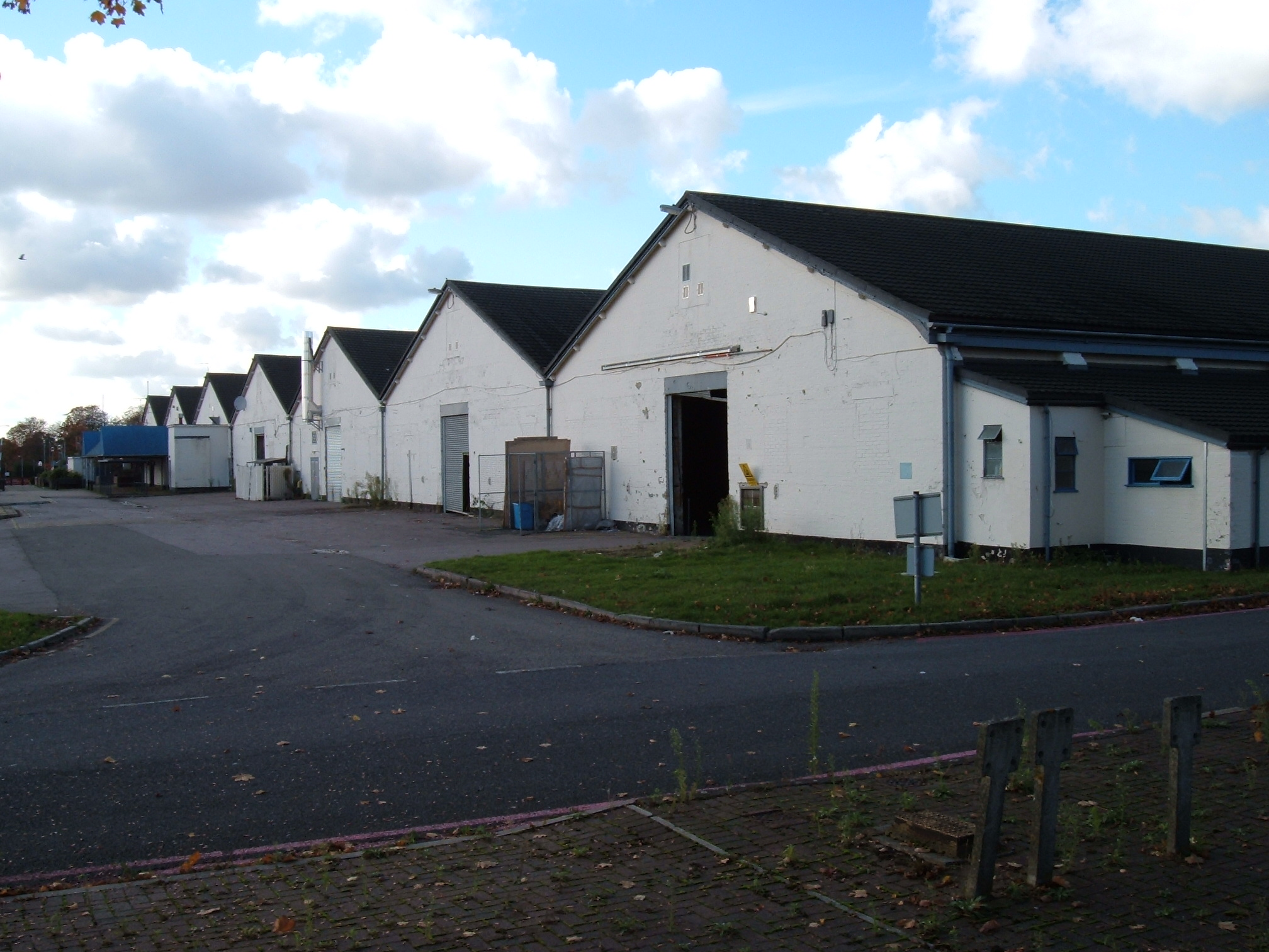 NEX at US Navy MWR RAF West Ruislip